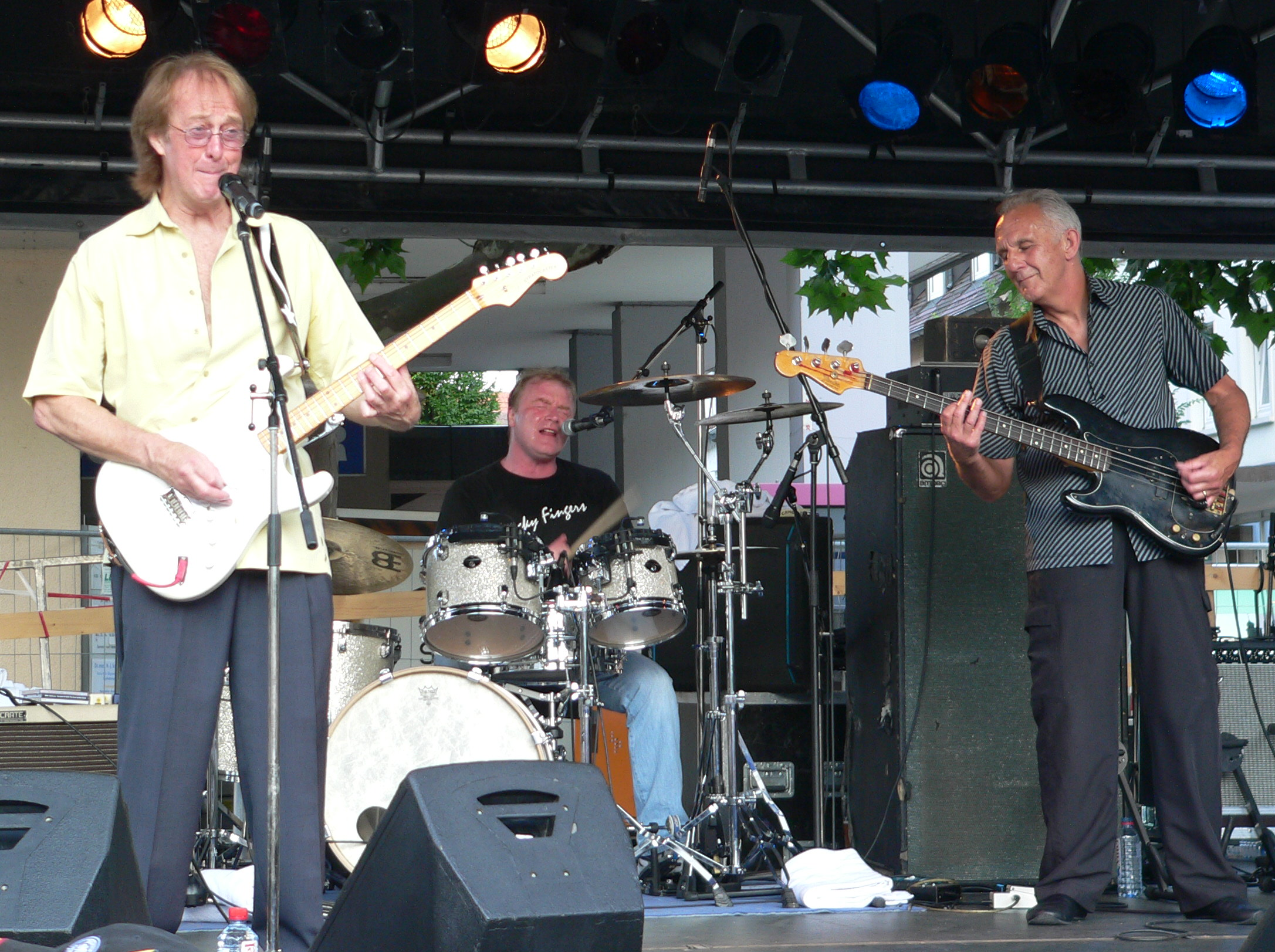 The Spencer Davis Group at a concert on 8. July 2006 in Neckarsulm, from left: Spencer Davis, Steff Porzel, Colin Hodgkinson